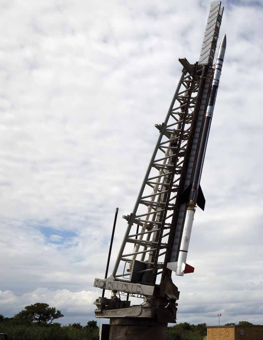 Black Brant X sounding rocket before launch (NASA mission 12.073 Hall)